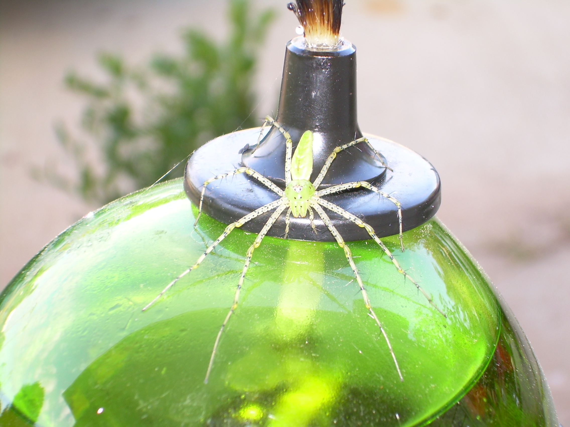 Green-colored spider, identified as a green lynx spider by the wikipedia reference desk